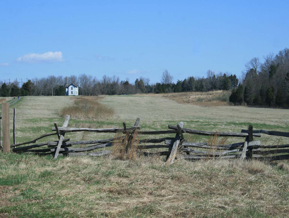 Battle of 2nd Manassas – Brawner's Farm and fence of Groveton Roar. Field of Gibbon's attack August 29